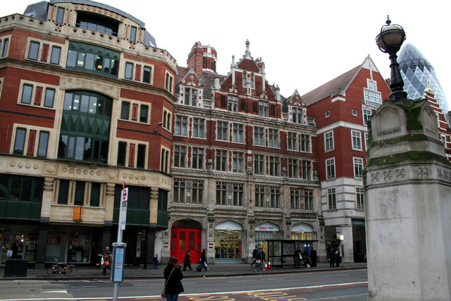 Old Fire station, Bishopsgate Although not used as a fire station for many years, this building is immediately recognisable as such. The pleasing Dutch style of architecture chimes in well with that of the Great Eastern Hotel, on the other side of the road.